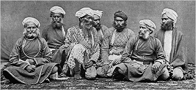 Group of Thugs.